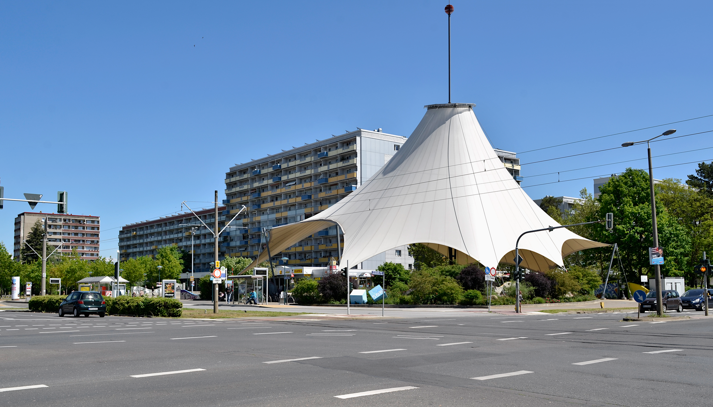 Gelsenkirchener Platz can be considered the center of Cottbus-Sachsendorf. The blue cubes marked "see" are stage 1 of Rundwanderweg Sachsendorf.